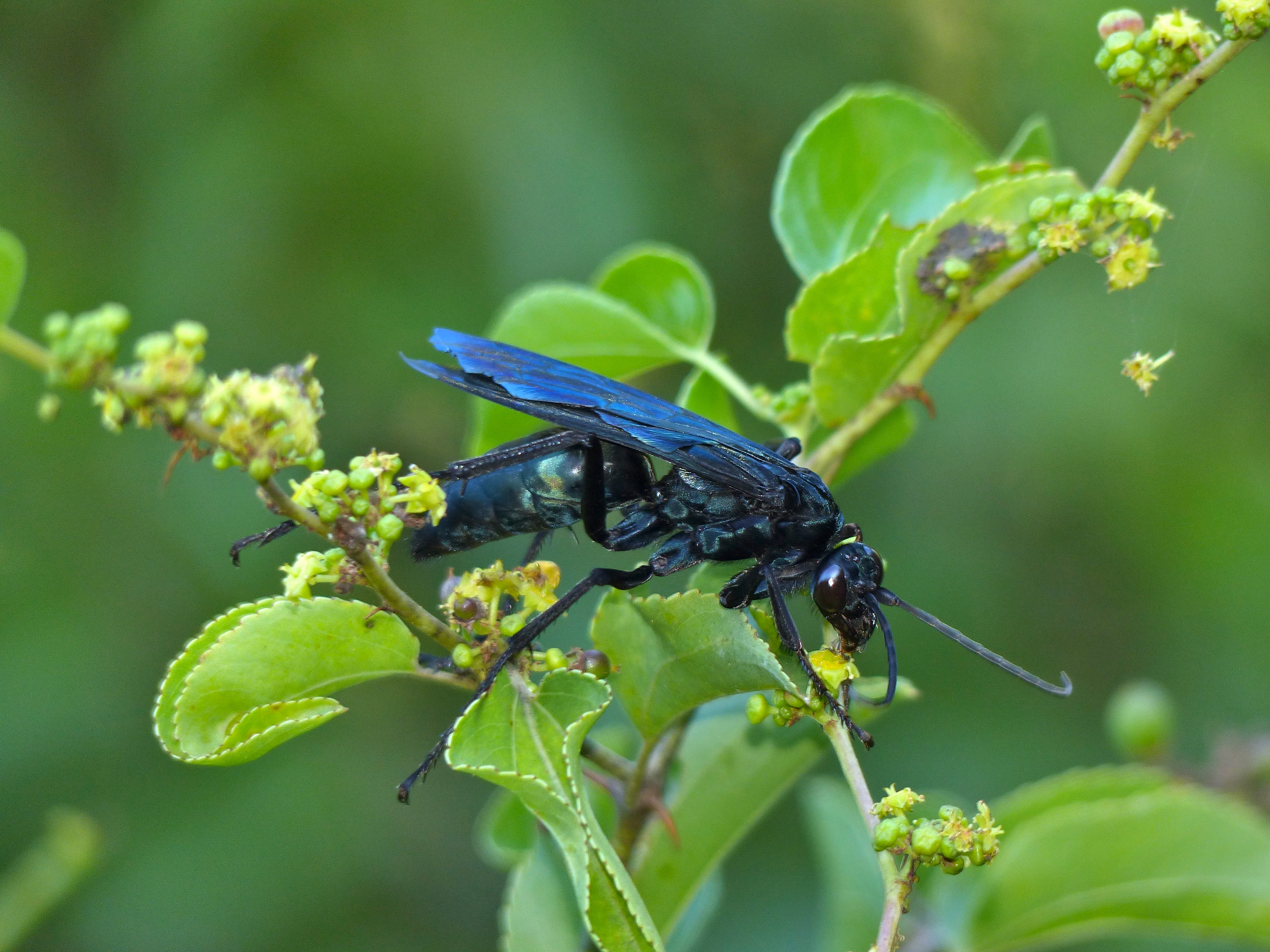 Tamboti Tented Camp, Kruger NP, SOUTH AFRICA